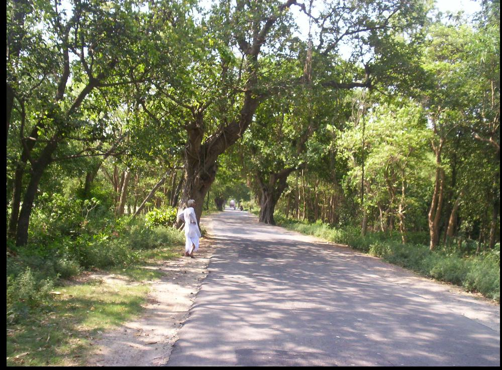 Mohanpur Village is located at the bank of Burhi Gandak. It is a medium size village in Begusarai District of Bihar. Nearest sub-divisions are Manjhaul and Begusarai. This road is from Manjahual to Begusarai. The picture has been taken at the border of the village.